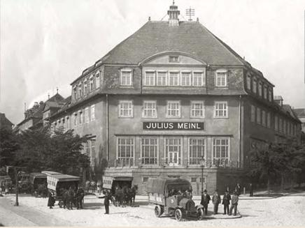 The Julius Meinl factory in Hernals, Vienna.